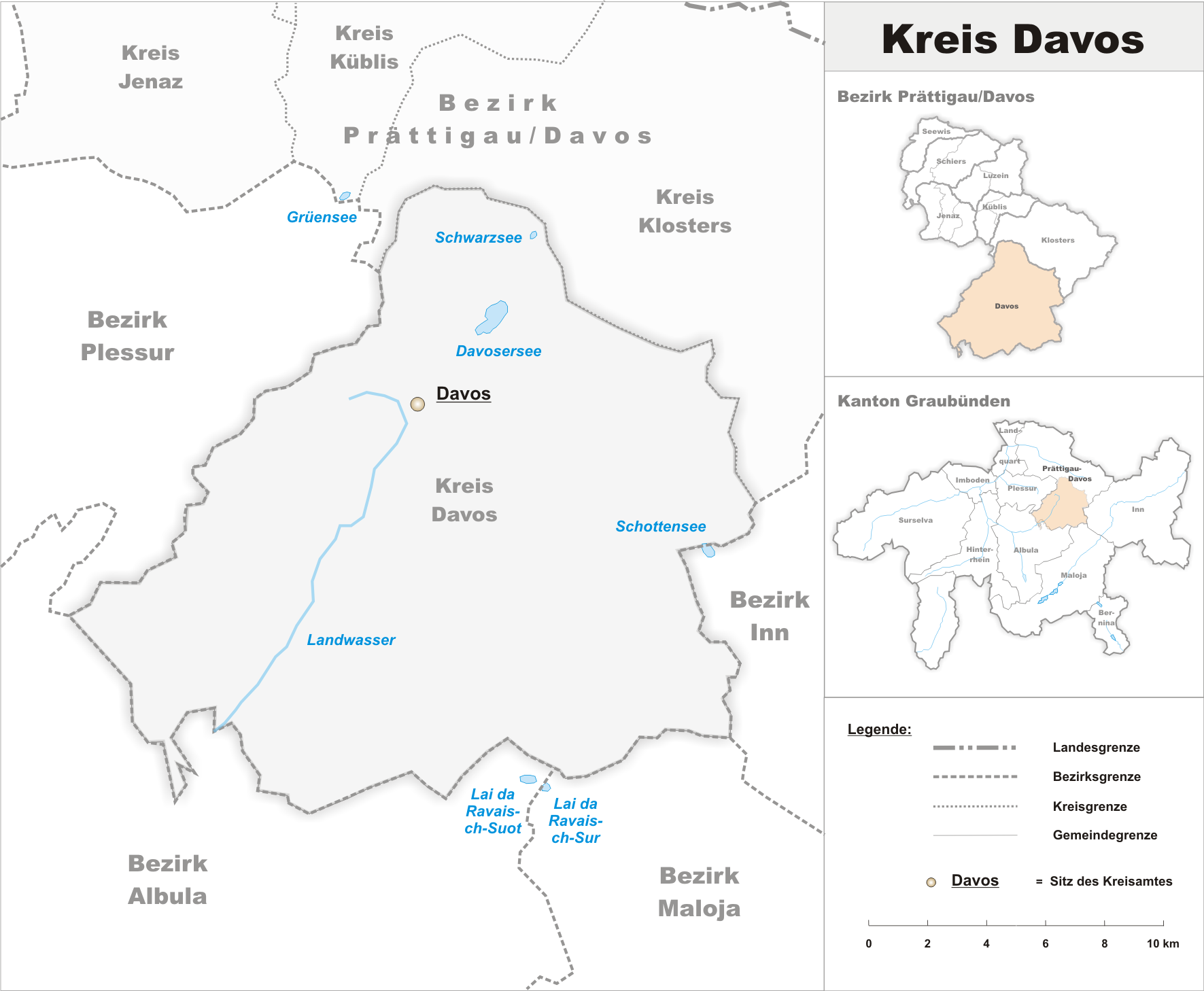 Municipalities in the circle of Davos